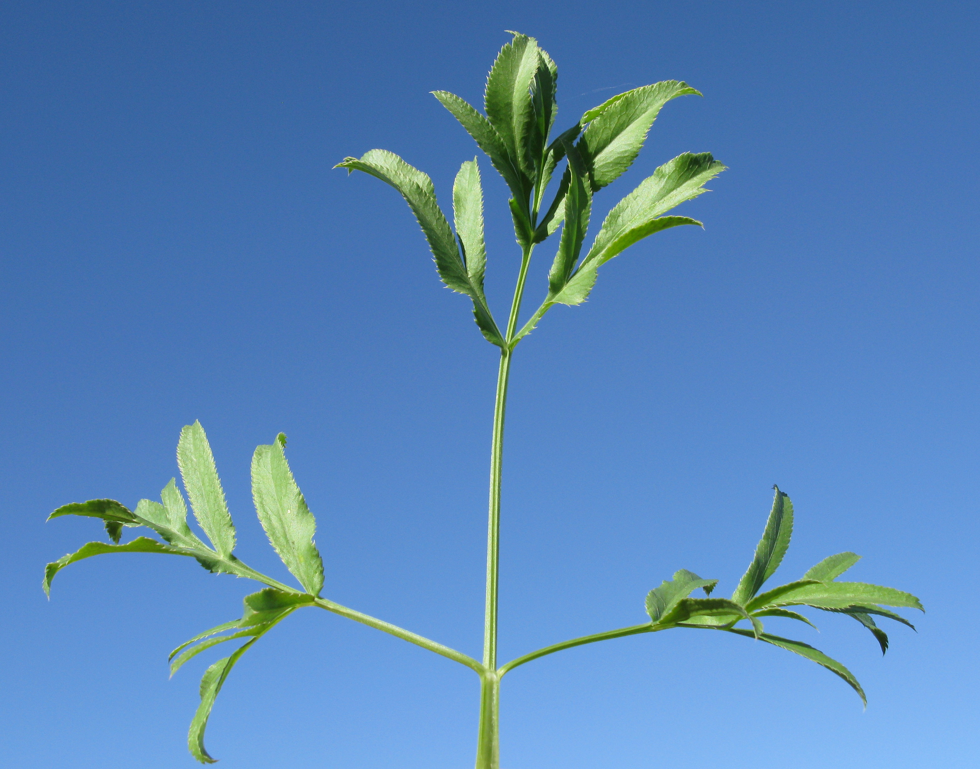 Introduced, warm season, annual, hairless, erect to spreading herb, 25–75 cm tall. Basal leaves are pinnatisect, 3–15 cm long with segments elliptic or obovate; upper stem leaves have linear-lanceolate or linear segments; all except uppermost with toothed margins. Flowerheads are umbels 4–7 cm wide; rays 20–40; bracts to 5 cm long, usually 3-fid or pinnatisect, sometimes entire. Petals are about 1.5 mm long and white. Fruit are oblong to ovoid and 1.5–2 mm long. A native of Europe, it is often a weed of cultivated and disturbed land. Livestock grazing this weed may become photosensitive. Largely an environmenal weed, it is invasive in a many natural habitats.